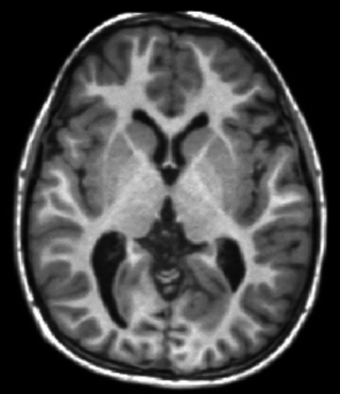 t1 weighted mri 3d brain section showing subcortical structures showing white matter showing gray matter cortical folds